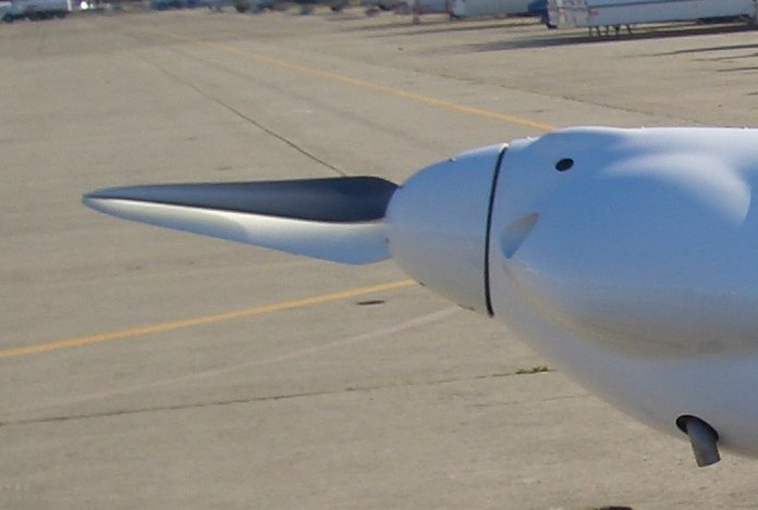 Detail of the propeller on a Carat Motorglider.